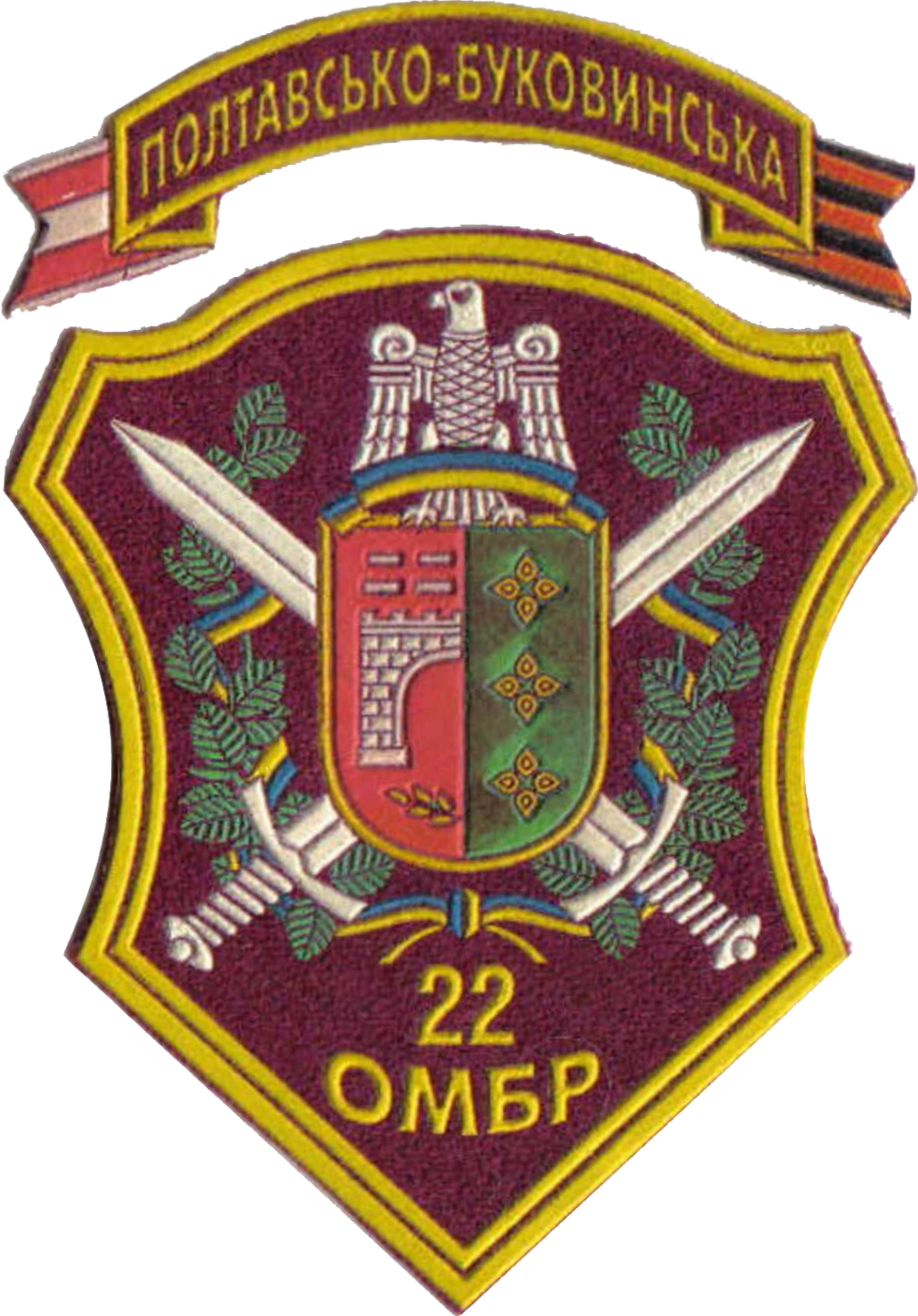 Shoulder sleeve insignia of the Ukrainian Army 22nd Mechanized Infantry Brigade